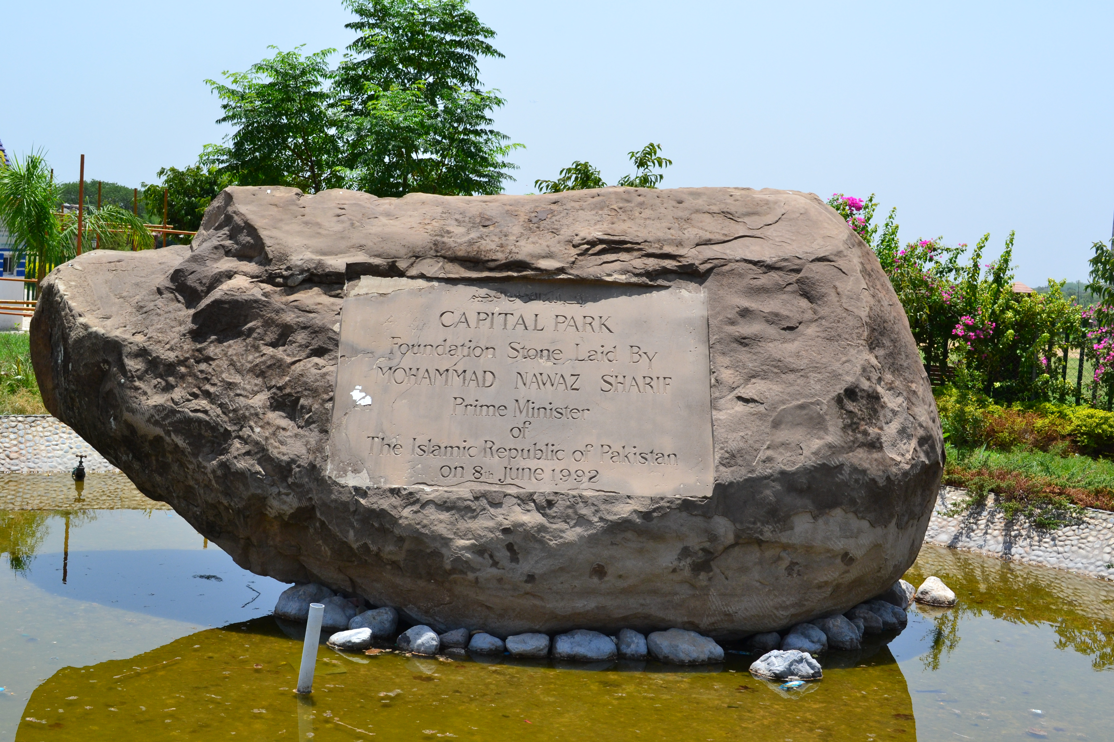 Foundation Stone of Capital Park (F/9 Park Islamaabad)